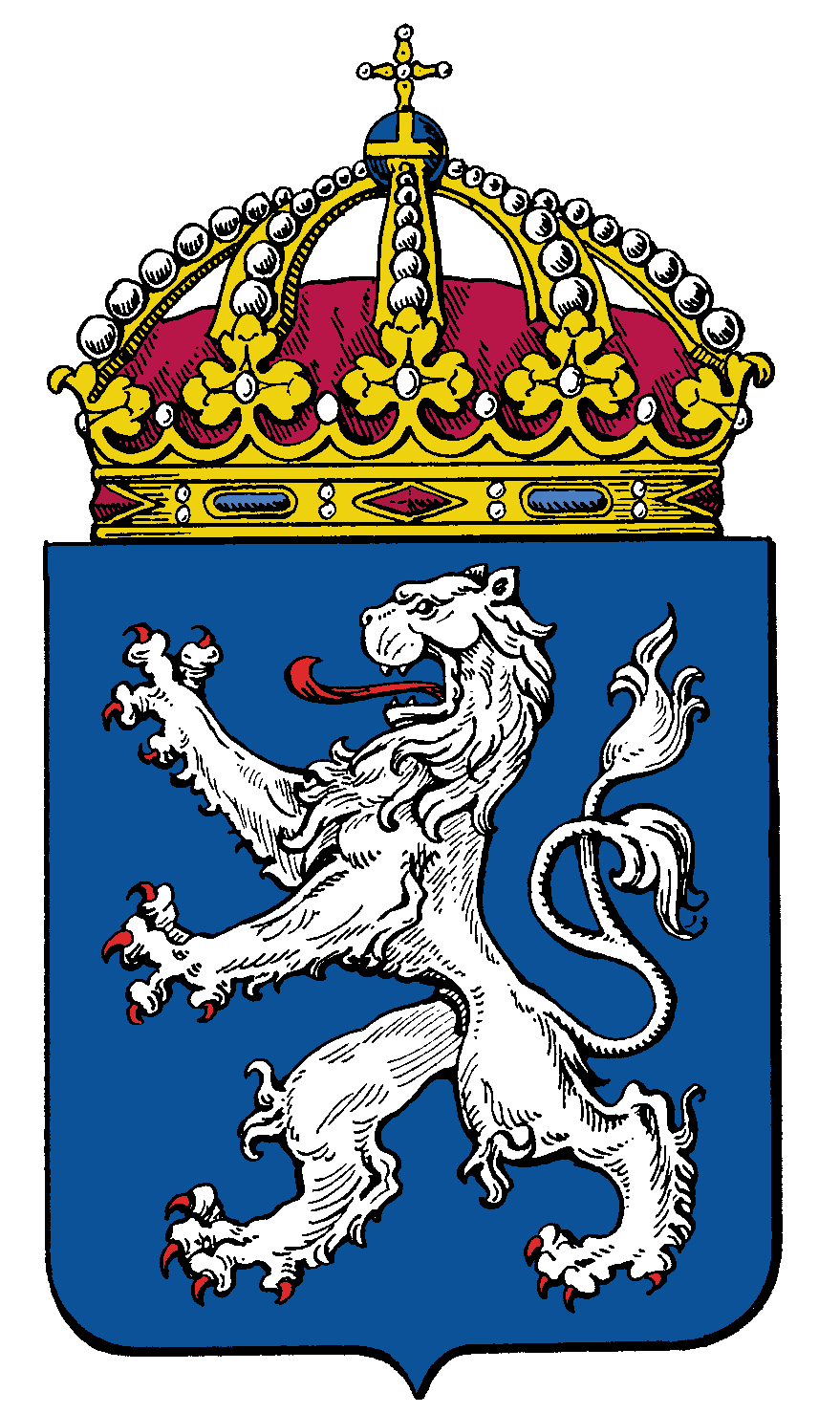 Coat of arms of the province of Halland